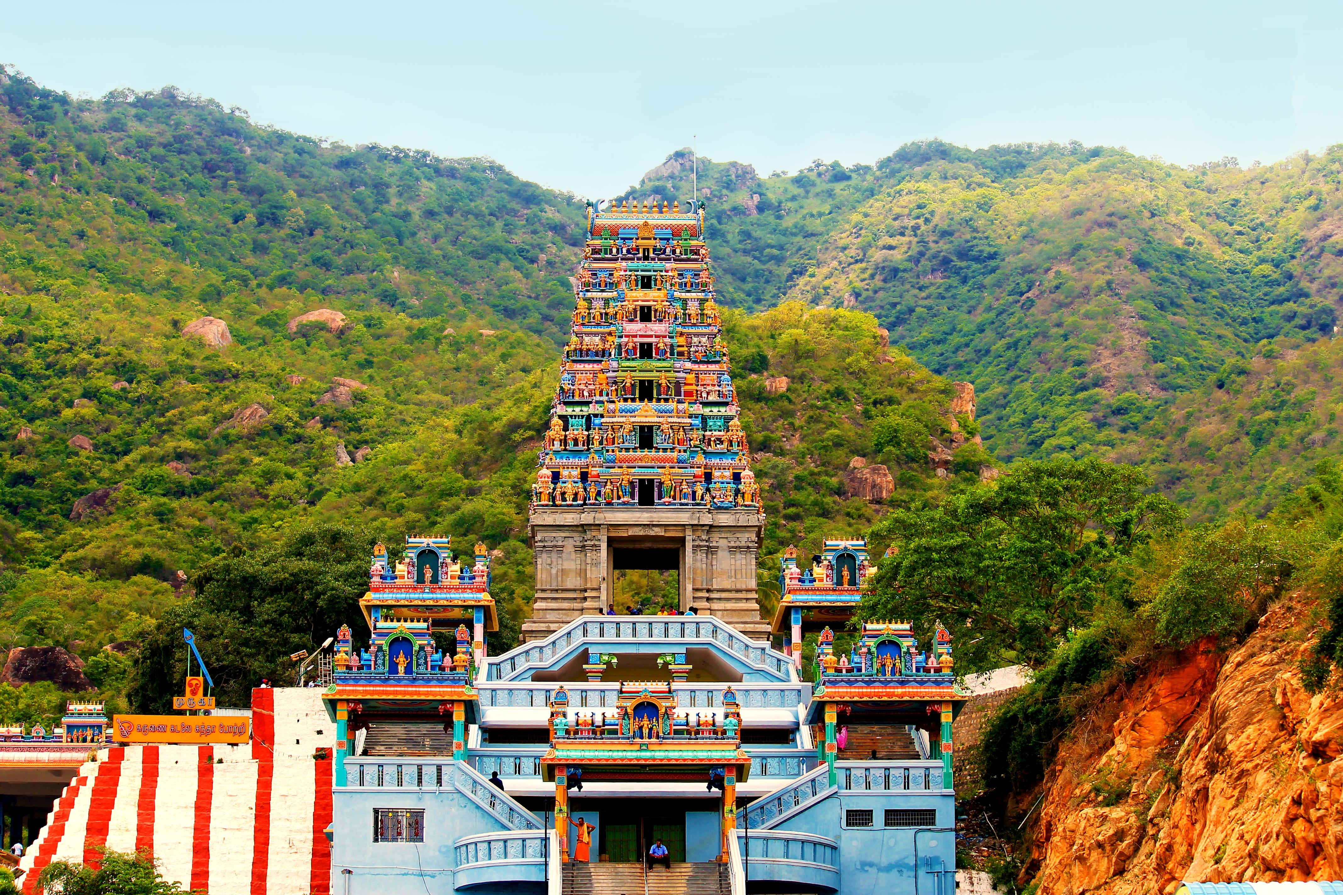 landscape front view of the temple